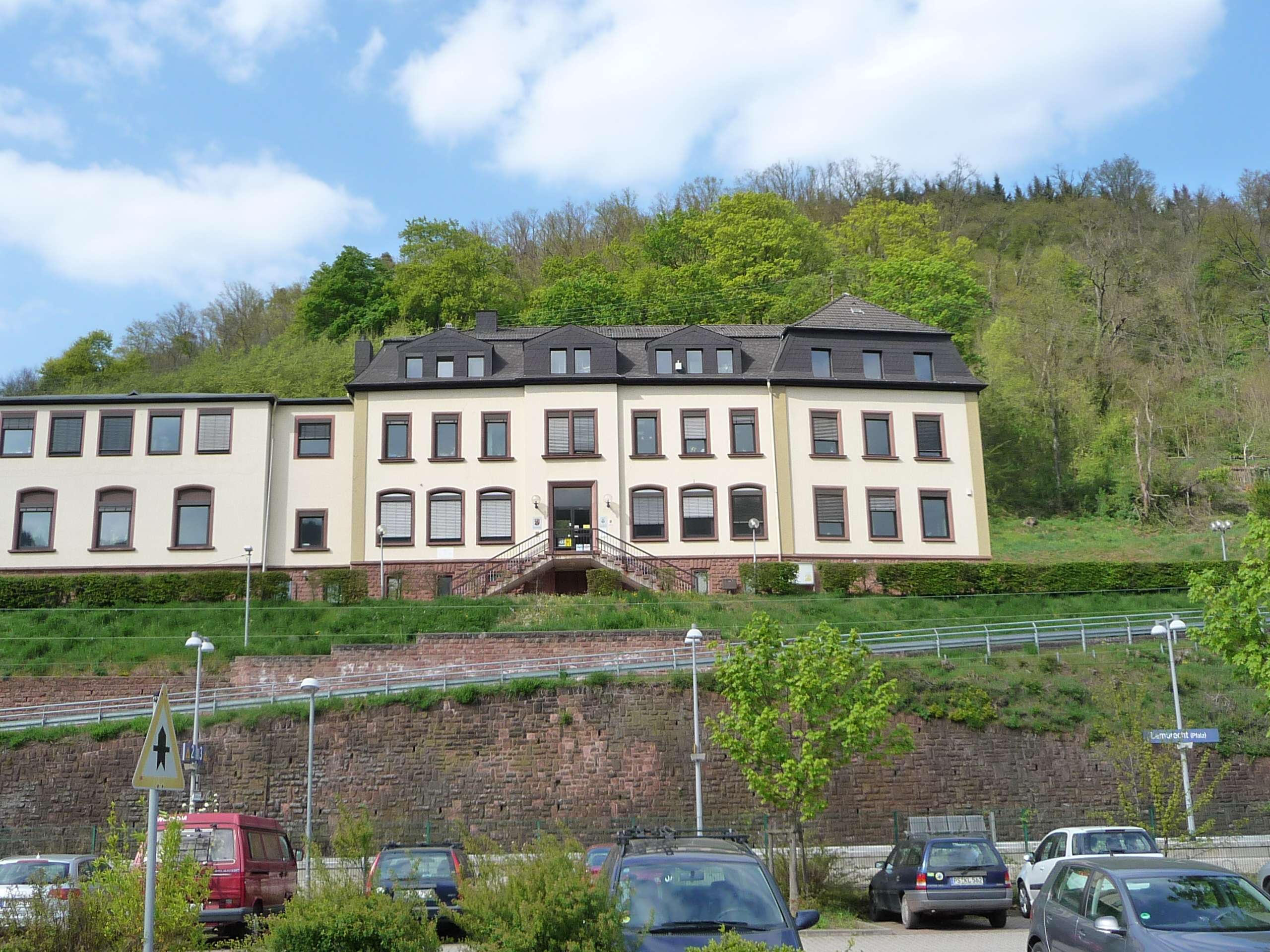 Lambrecht (Pfalz)